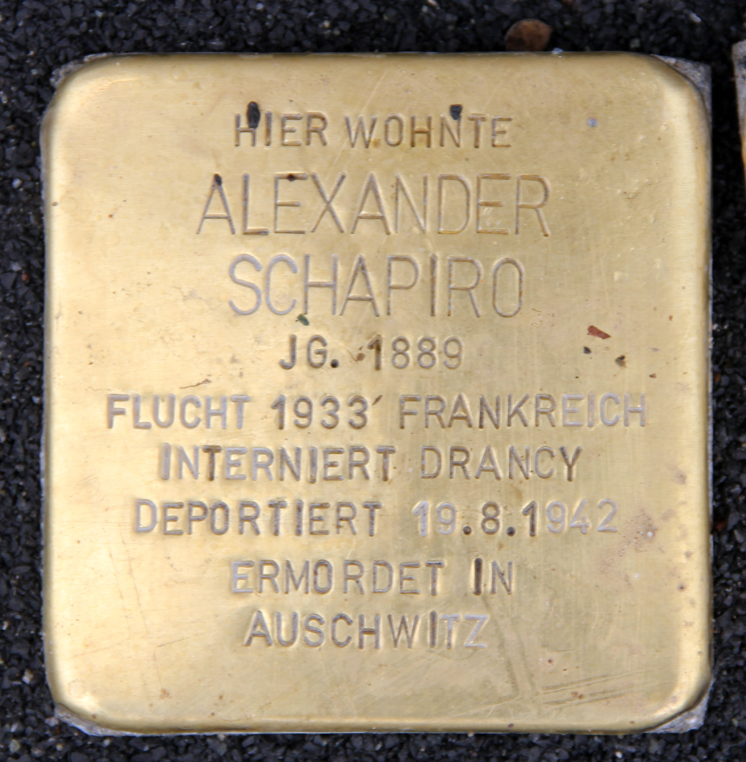 "Stolperstein" (stumbling block), Alexander Schapiro, Brunnenstraße 165, Berlin-Mitte, Germany